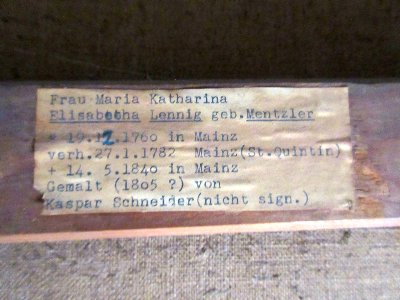 Revers portrait Katharina Lennig maiden name Mentzler painted by Kaspar Schneider around 1805